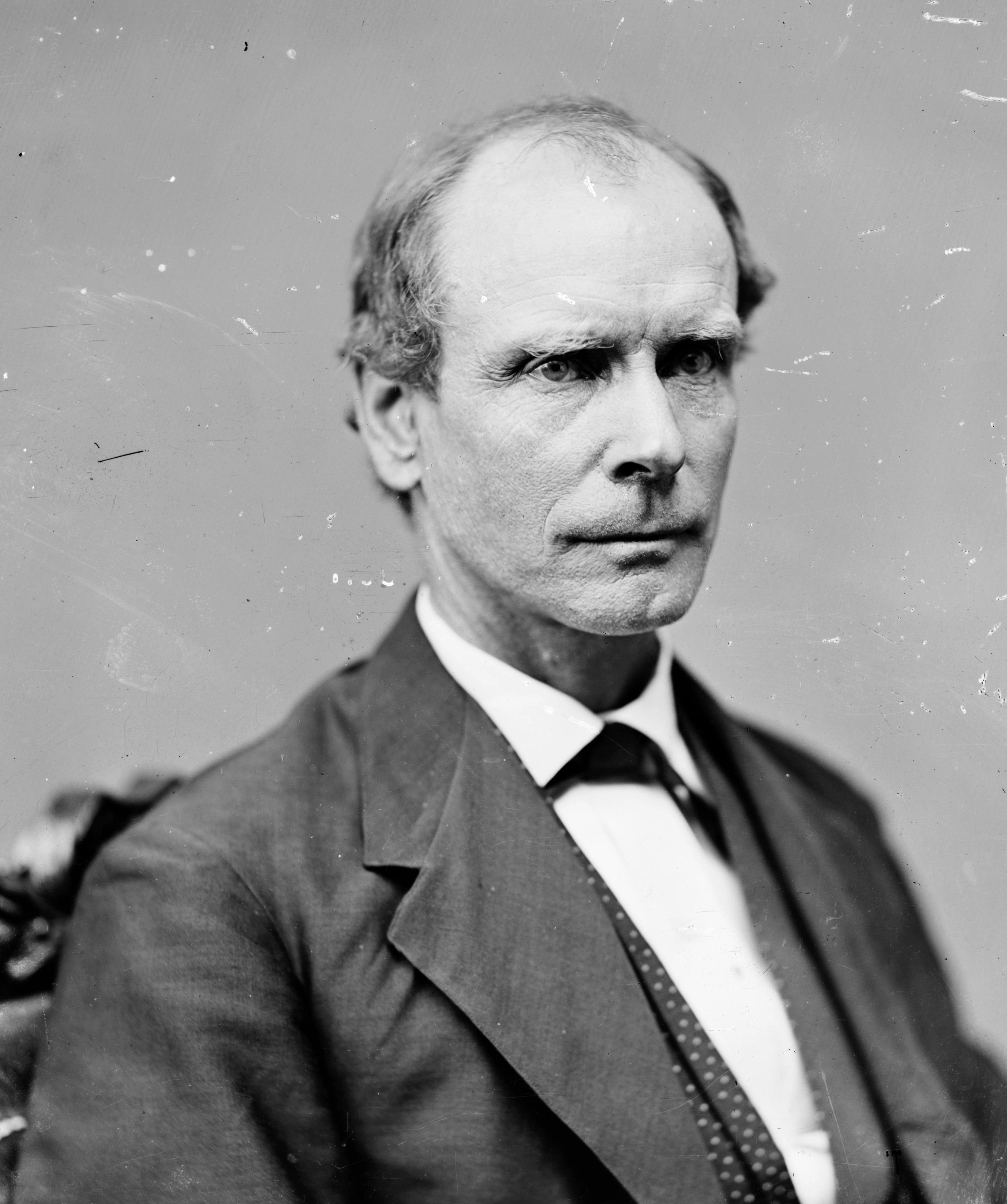 This is an edited orginal Matthew Brady photo to remove damaged or missing areas. The photo has been enhanced.